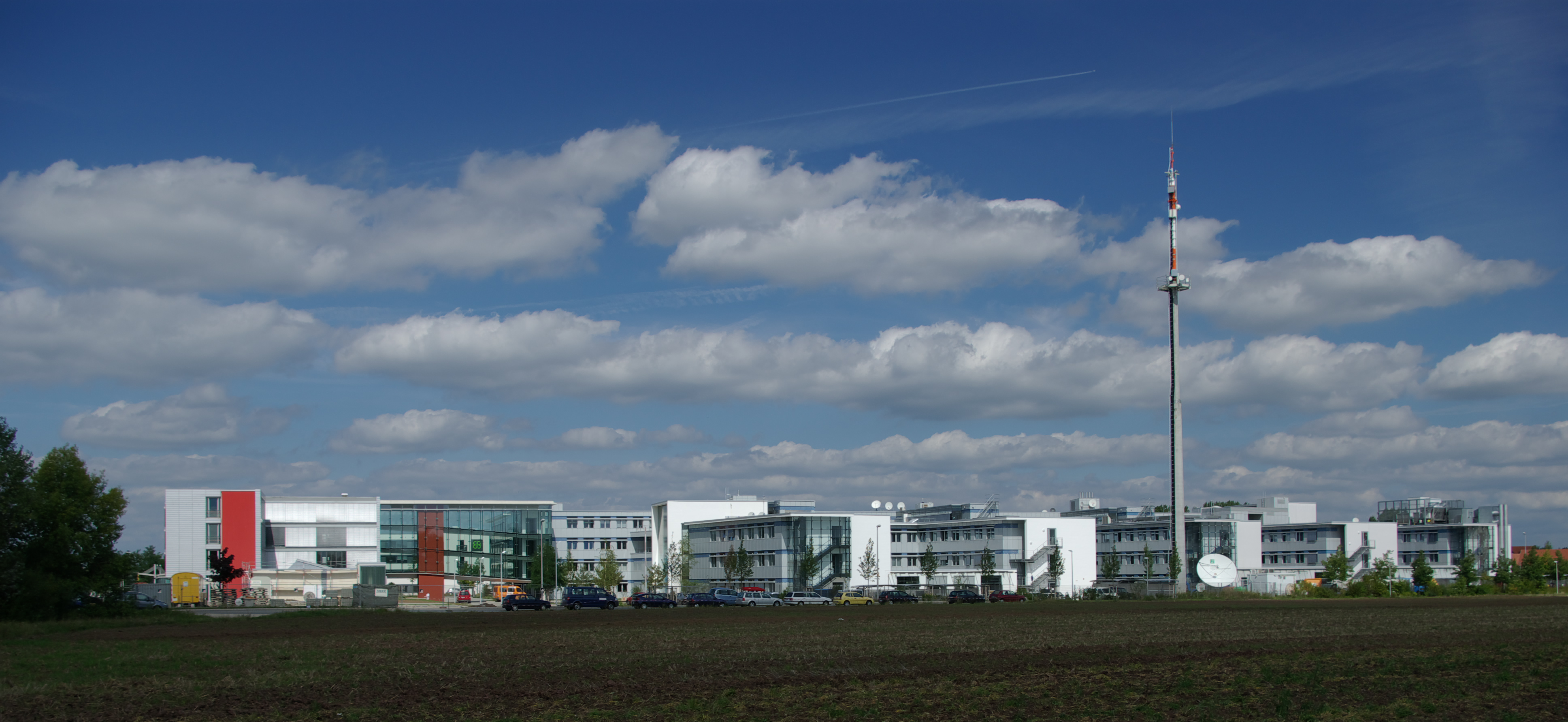 main building of the Fraunhofer Institute for Integrated Circuits